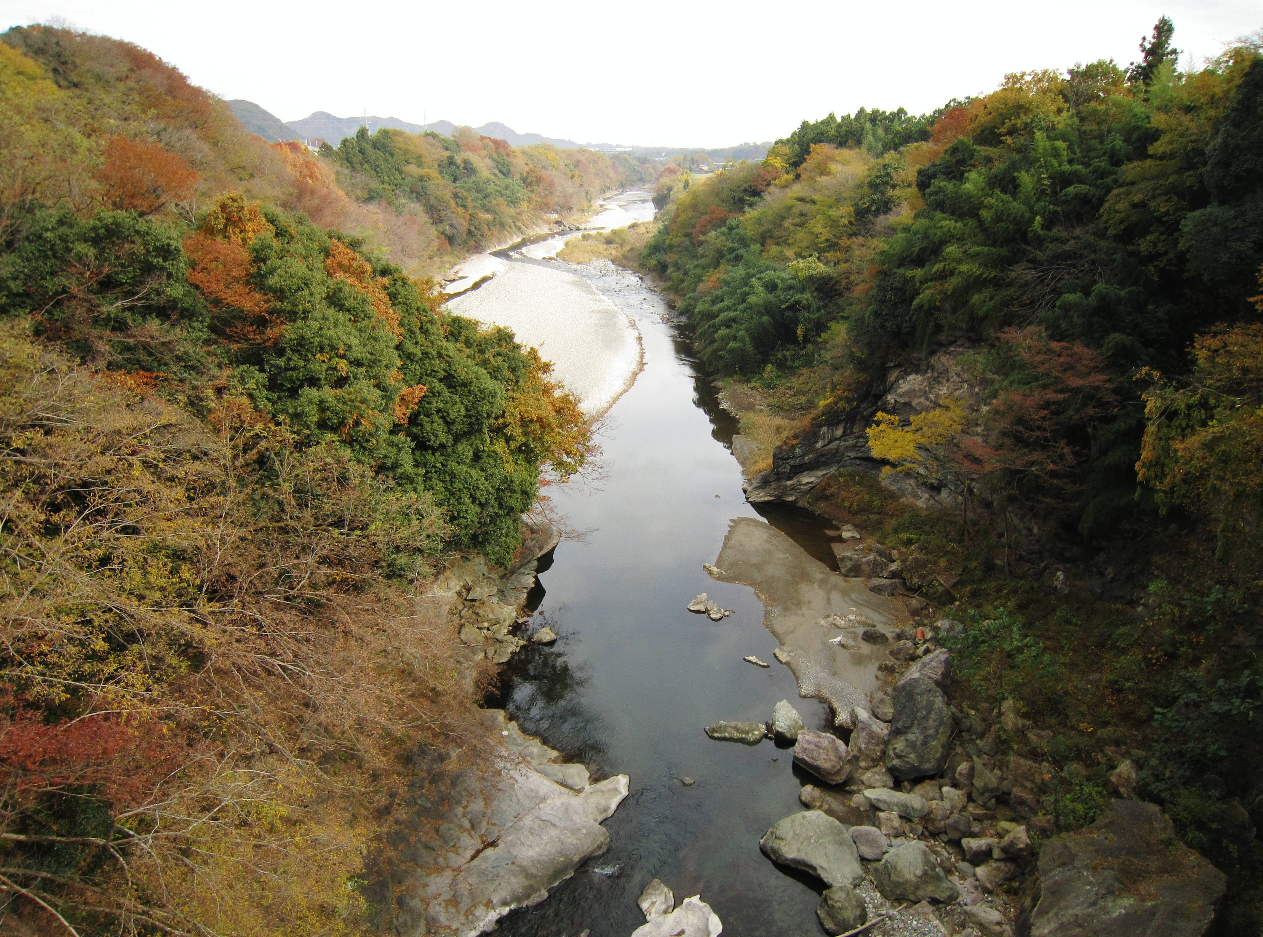 Kabura River.